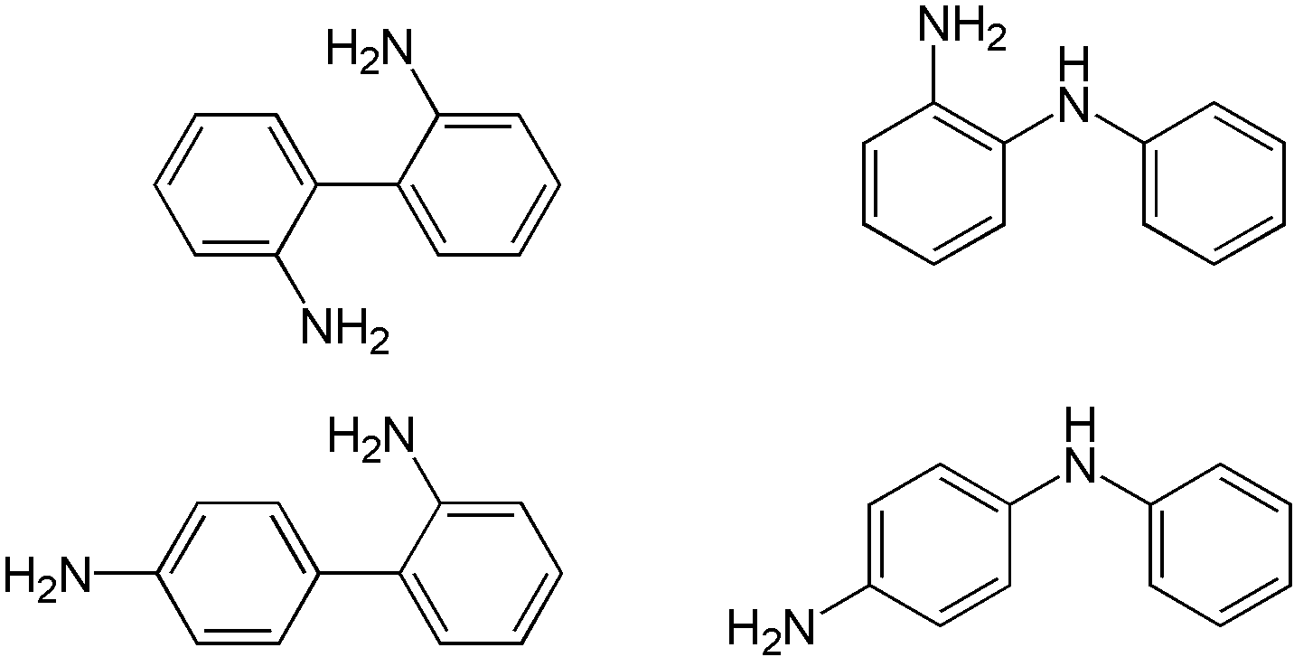 byproducts of the benzidine rearrangement